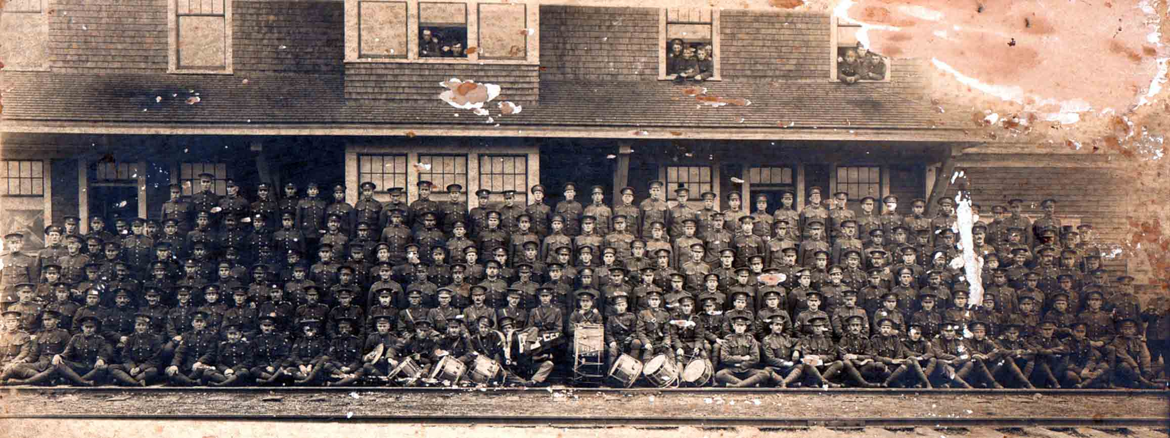 Battalion photo of 132nd CEF prior to departure to Valcartier, presumably taken in New Brunswick. Band present in from with Battalion Mascot. The 132nd Battalion (North Shore), CEF was a unit in the Canadian Expeditionary Force during the First World War. Based in Chatham, New Brunswick, the unit began recruiting in late 1915 in North Shore and Northumberland Counties. After sailing to England in October 1916, the battalion was absorbed into the 13th Reserve Battalion on January 28, 1917.